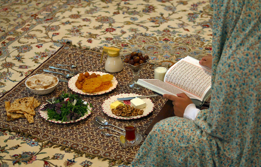 An Iranian iftar meal in Ramadan.